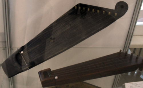 Novaday reconstruction of "Kantele" by Ales Chumakou, Belarus Беларуская (тарашкевіца): Сучасная рэканструкцыя (Майстар - Алесь Чумакоў) 9-ці струнных кантэле, Беларусь